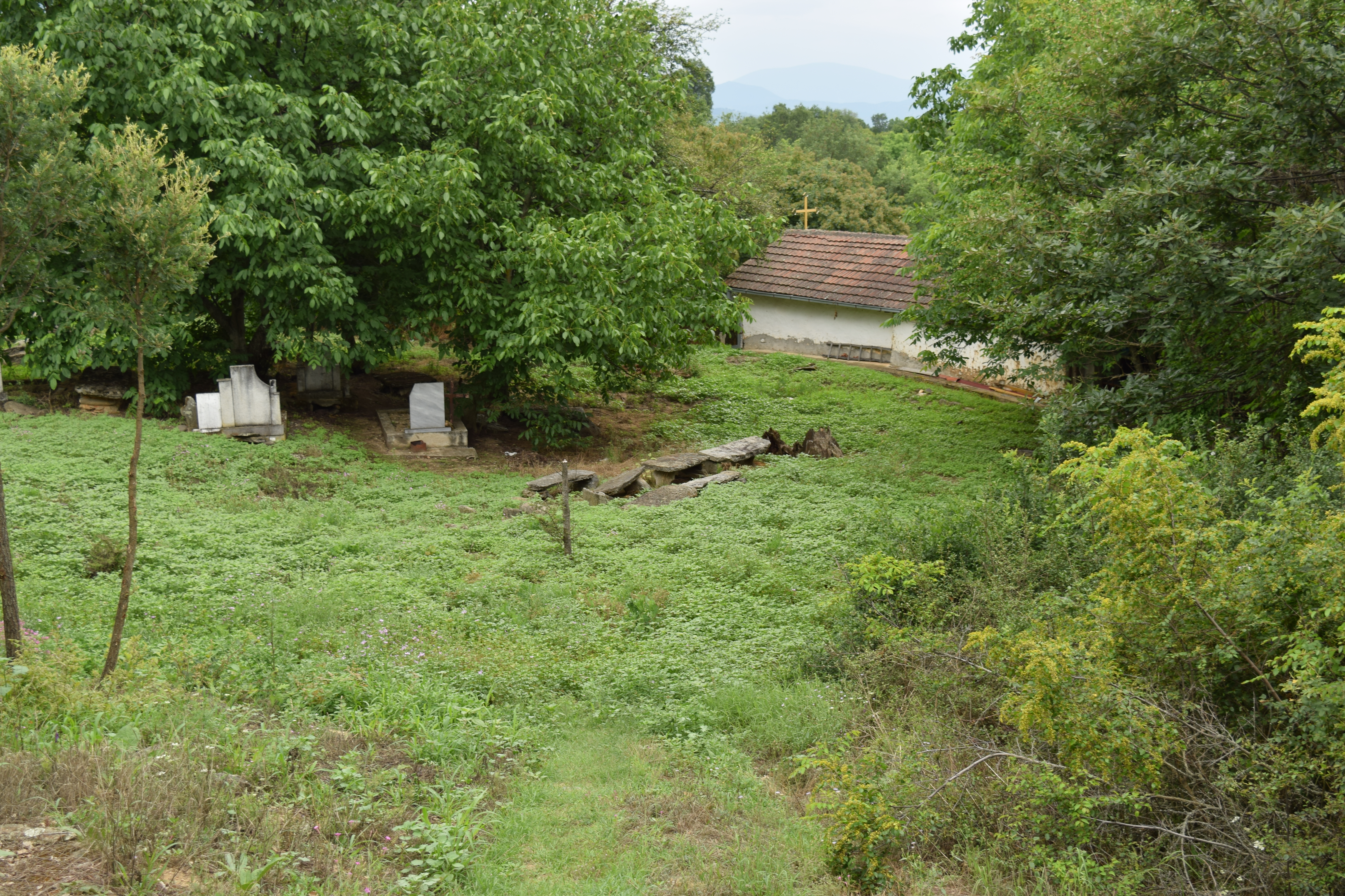 View of the St. George's Church in the village Bistrica